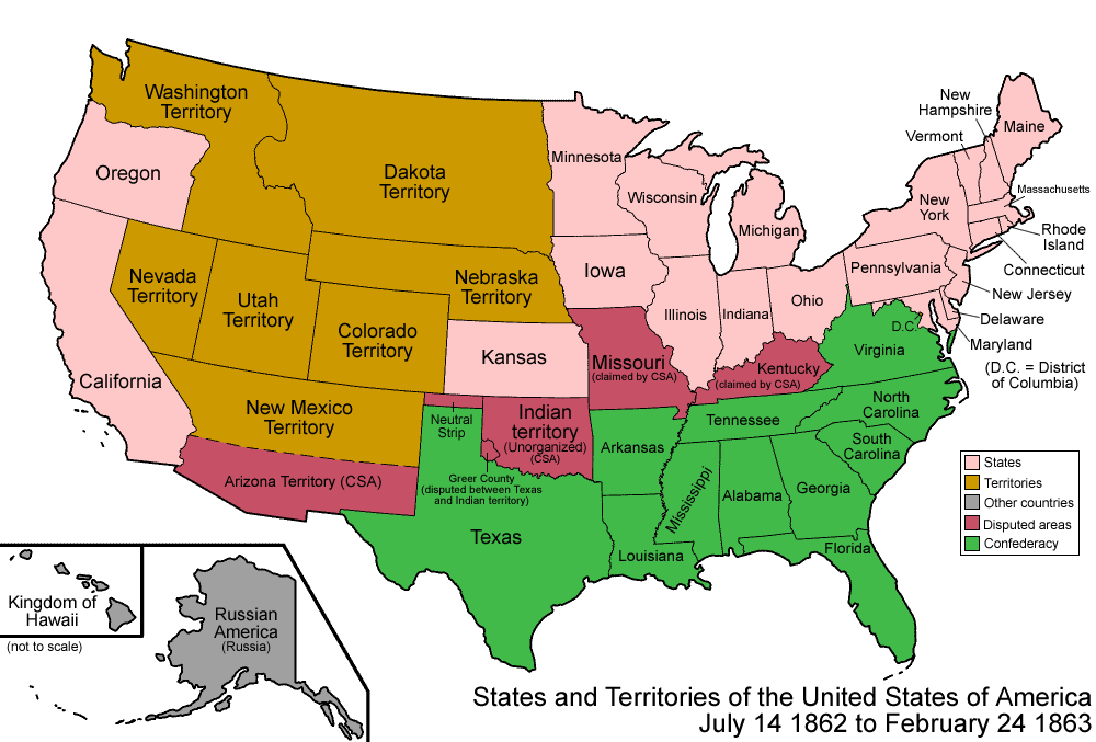 Map of the states and territories of the United States as it was from 1862 to February 1863. On July 14 1862, Nevada Territory gained some land from Utah Territory. On February 24 1863, the Union split its own Arizona Territory from New Mexico Territory, including about half of the CSA's claimed Arizona Territory.